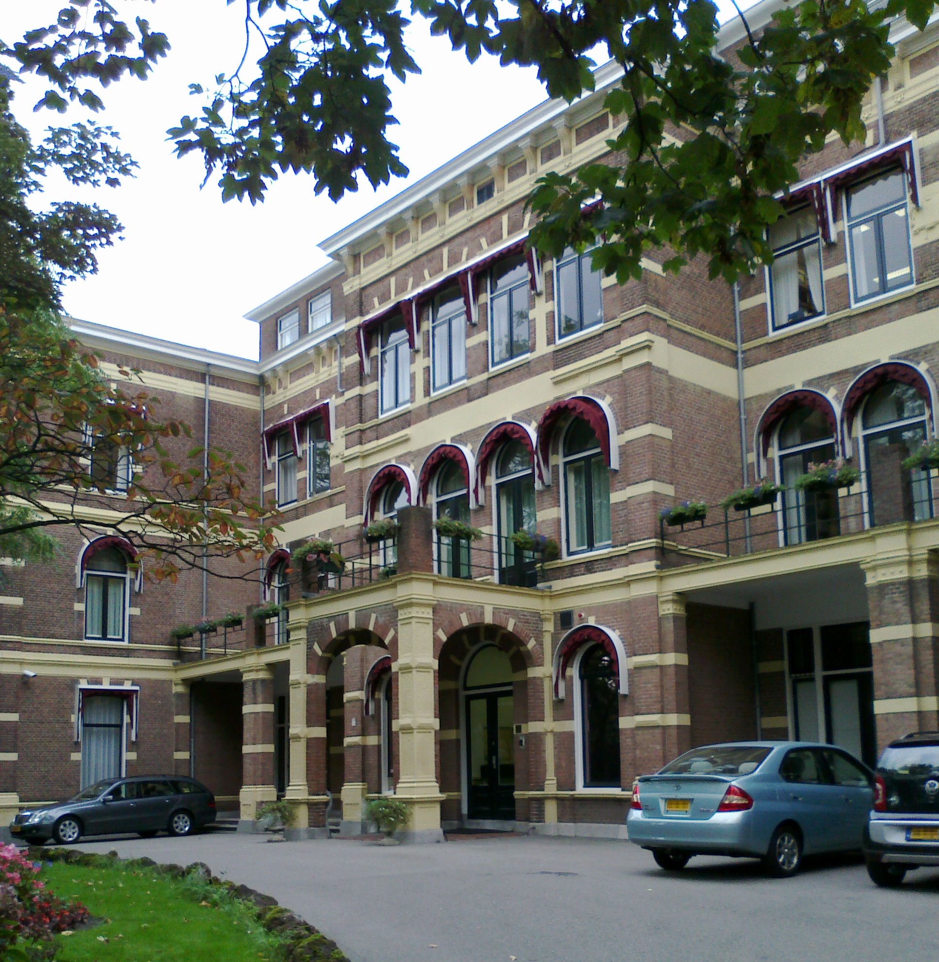 Iran-United States Claims Tribunal (IUSCT), Parkweg 13, The Hague, the Netherlands. The building is located at the Van Stolk Park. It was originally built in 1893 as the Park Hotel, a neo-Renaissance design by architect A.P. van Dam.